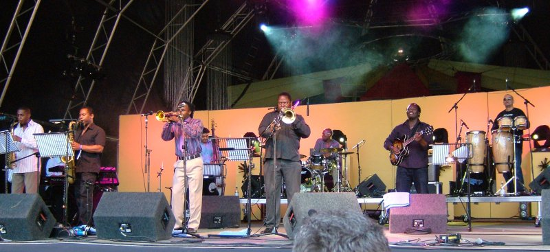 Jazz Jamaica performing at the Summer Sundae festival, Leicester, August 2007